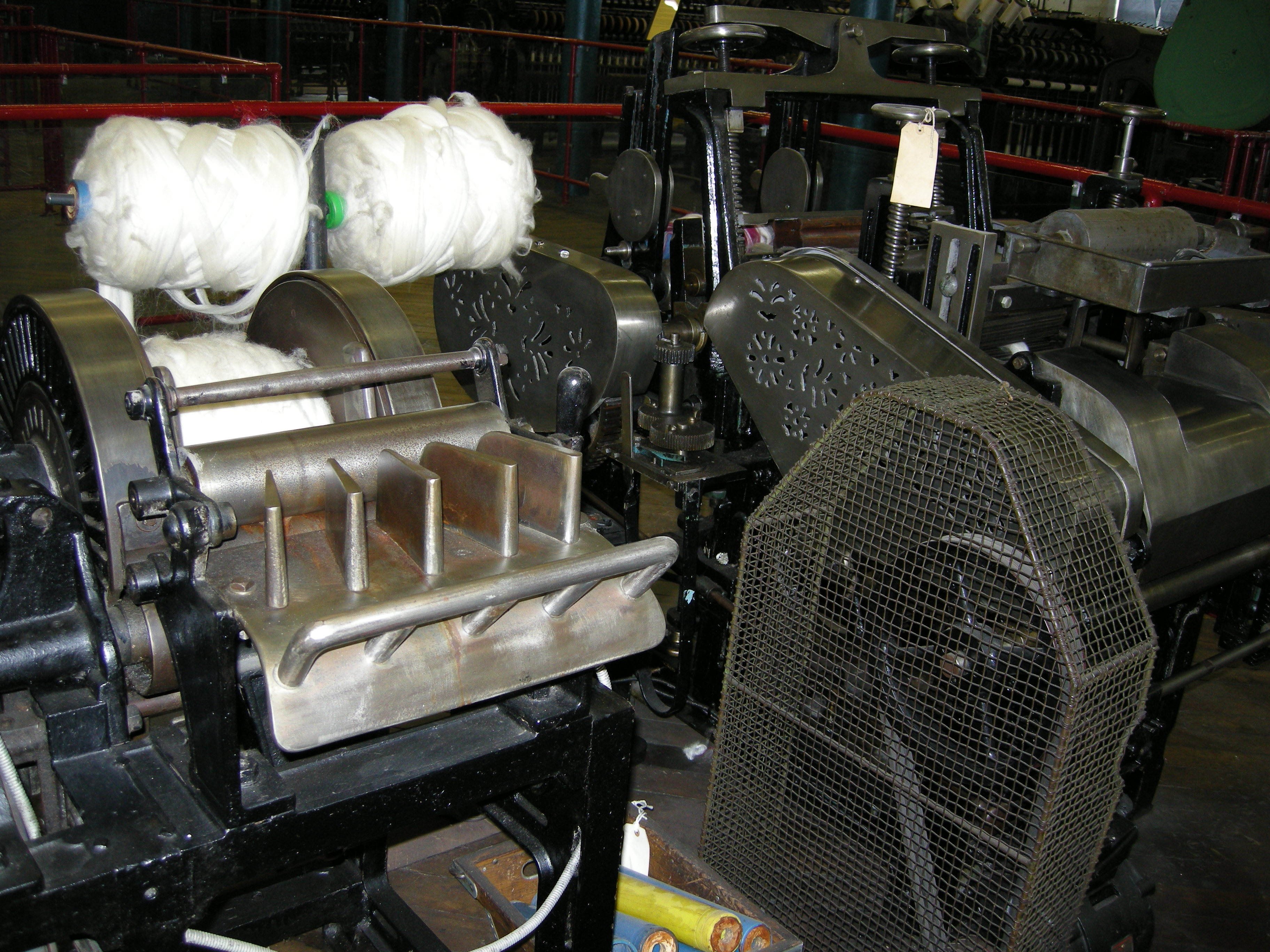 Spinning machines at Bradford Industrial Museum, Bradford, West Yorkshire, England. 53.48'.40".N; 1.43'.16".W.